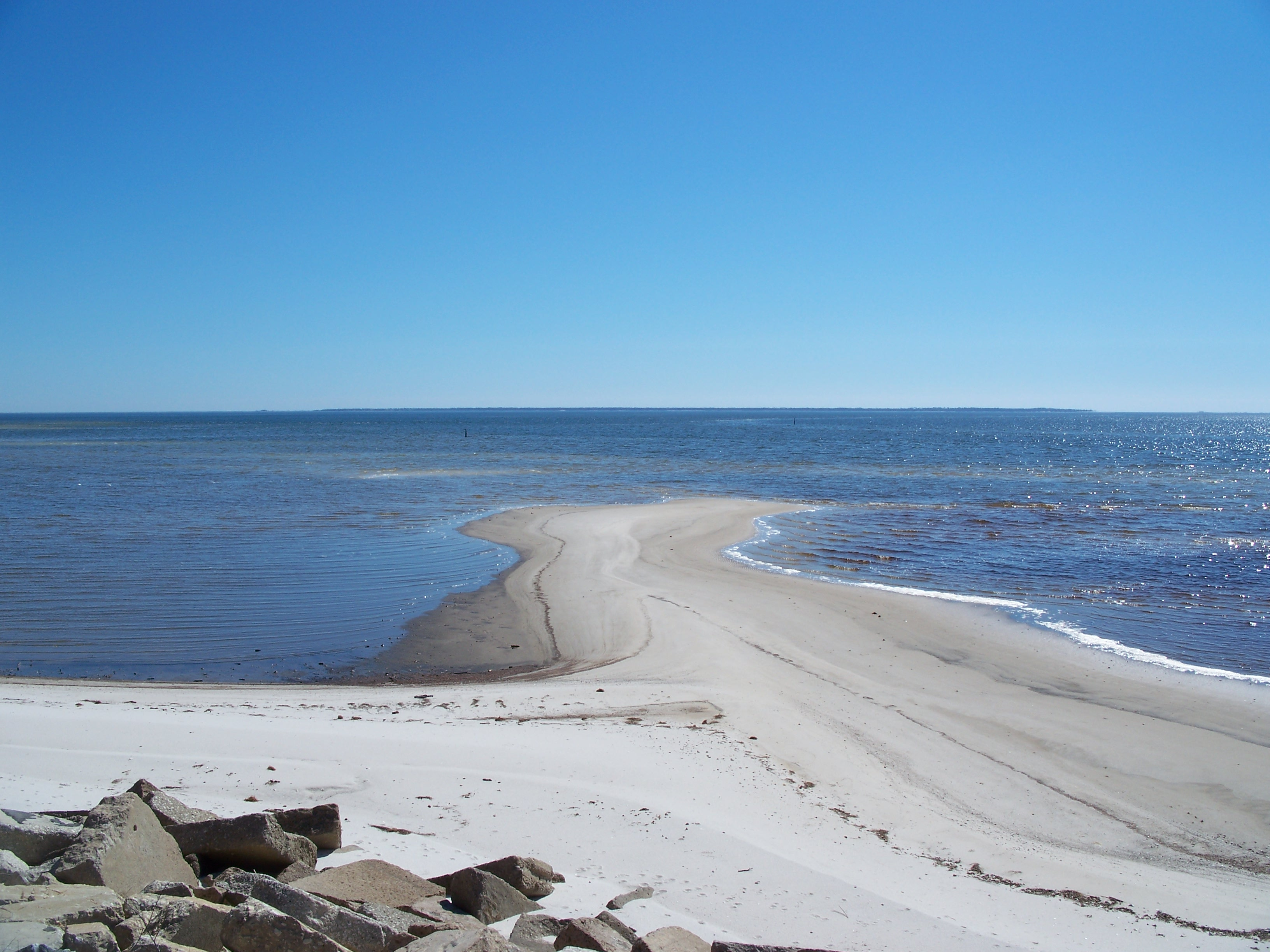 Franklin County, Florida: Gulf of Mexico, seen from US 98/319